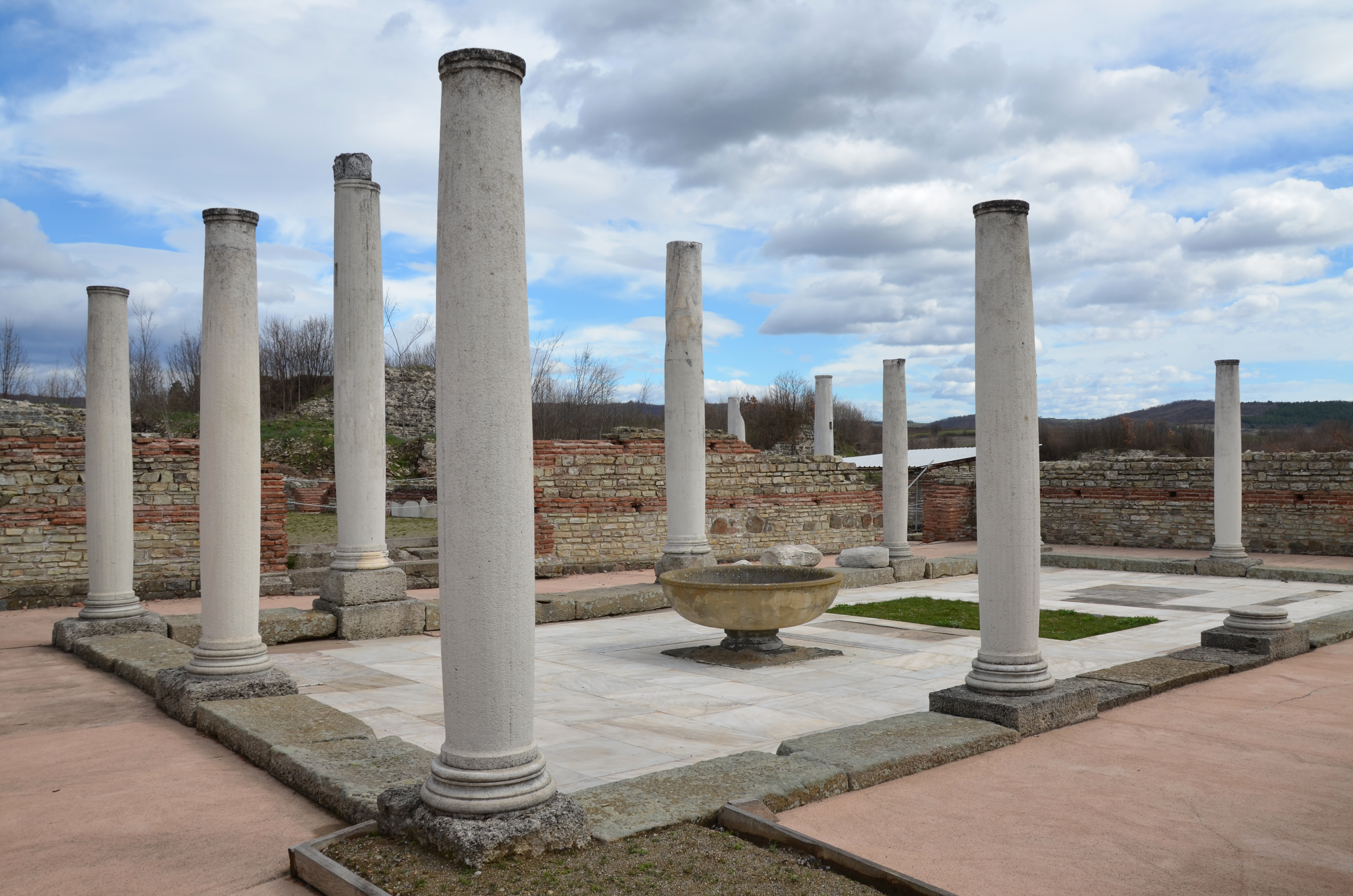 Felix Romuliana, built in 298 AD by Emperor Galerius, Dacia Ripensis, Serbia